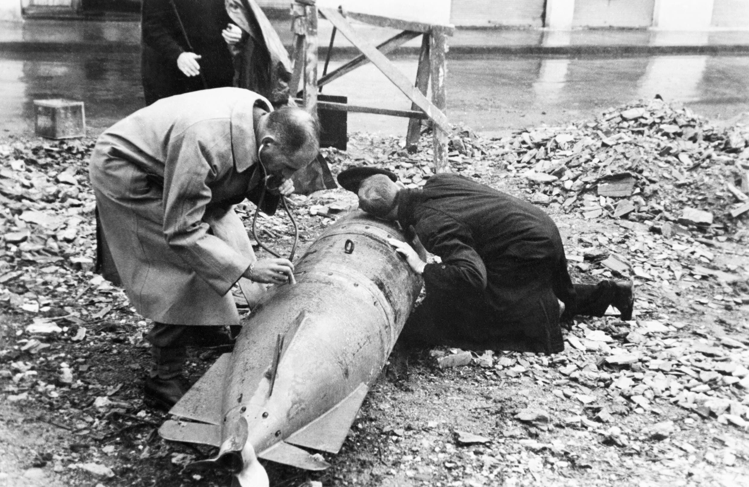 A bomb disposal party working on an enemy weapon dropped near Algiers, November 1942. At work on a new type of bomb or torpedo dropped by parachute near Algiers.